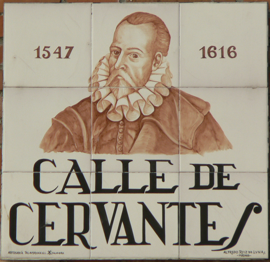 Sign of Calle de Cervantes (street, Centro district) in Madrid (Spain).